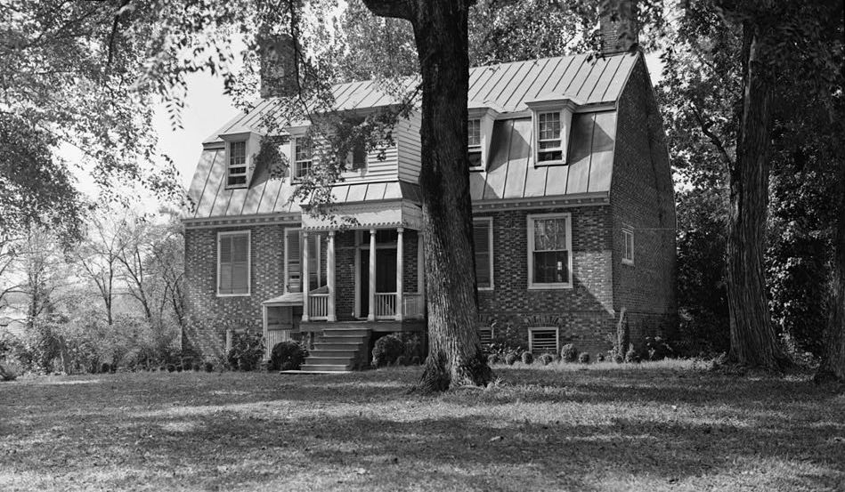 Exterior view of Rural Plains, 7273 Studley Road (State Route 606), Richmond National Battlefield Park, Hanover County, Virginia. Courtesy of the Historic American Buildings Survey, Library of Congress, Washington, D. C.